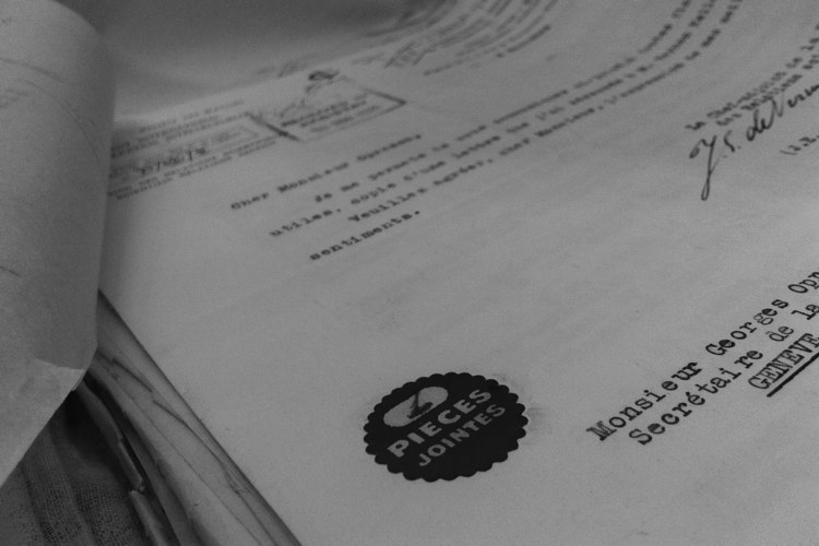 Attached files (1923) Archives of the International Committee on Intellectual Cooperation (League of Nations), UN Geneva. Source: Grandjean, Martin (2013) Archives en images : Quelques aperçus de la Commission de coopération intellectuelle.